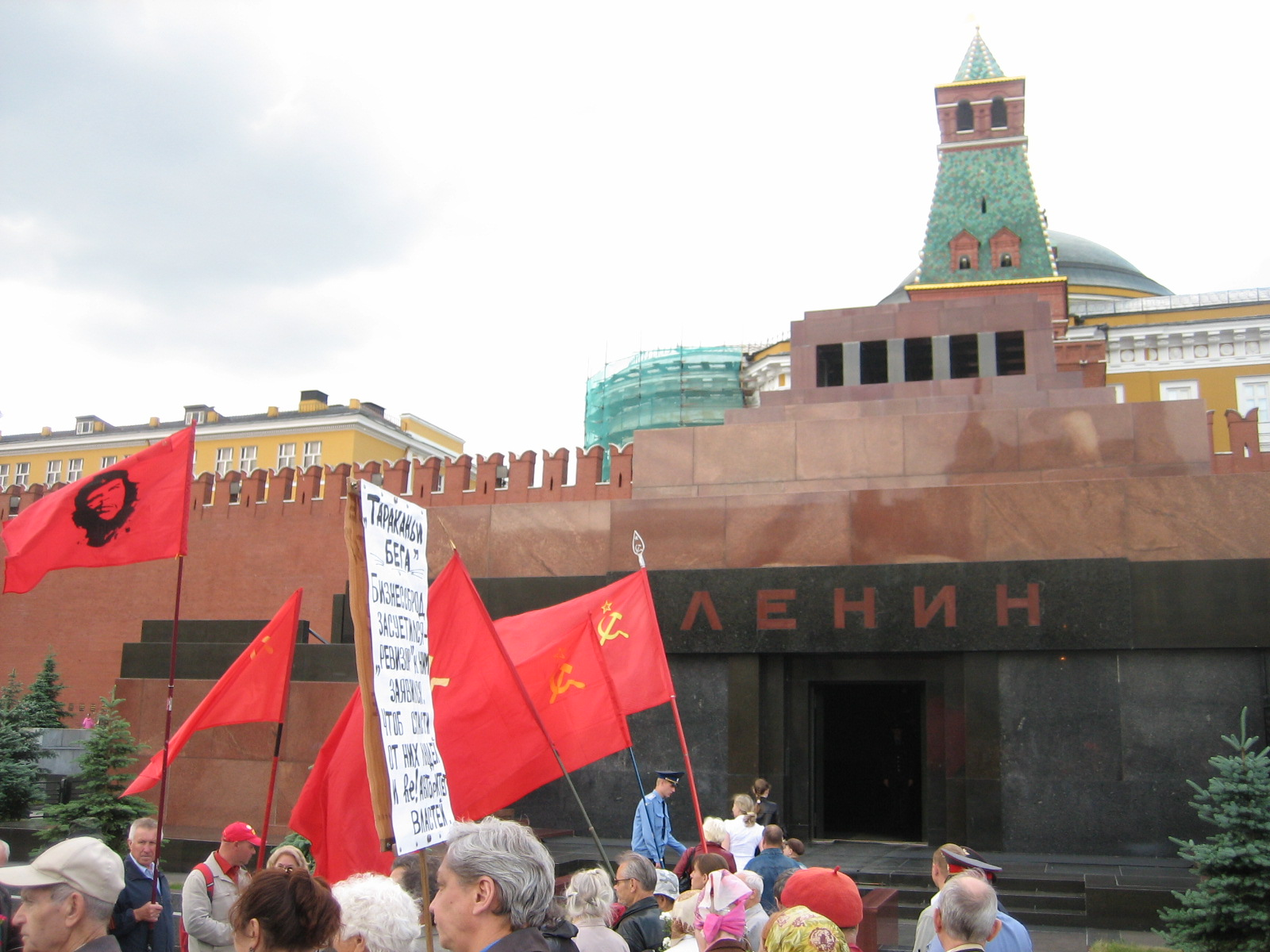 Protest ralley of Russian Communist Party in front of Lenin Mausoleum, Moscow.